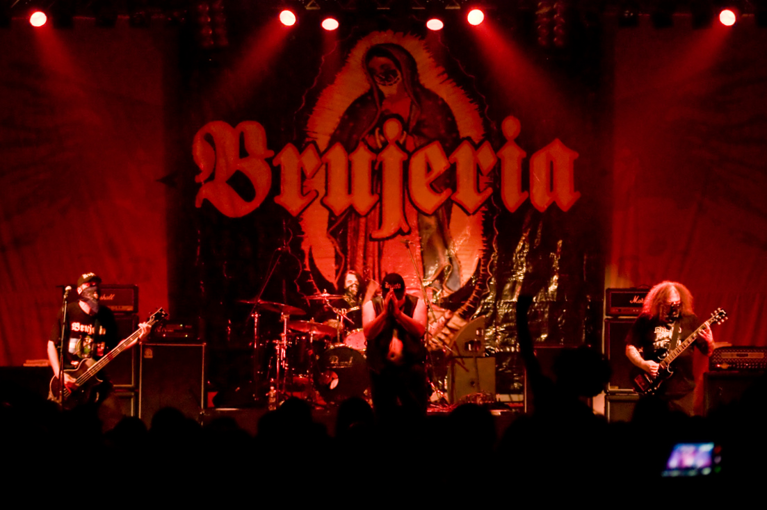 Brujeria playing live at Sziget festival 2009.